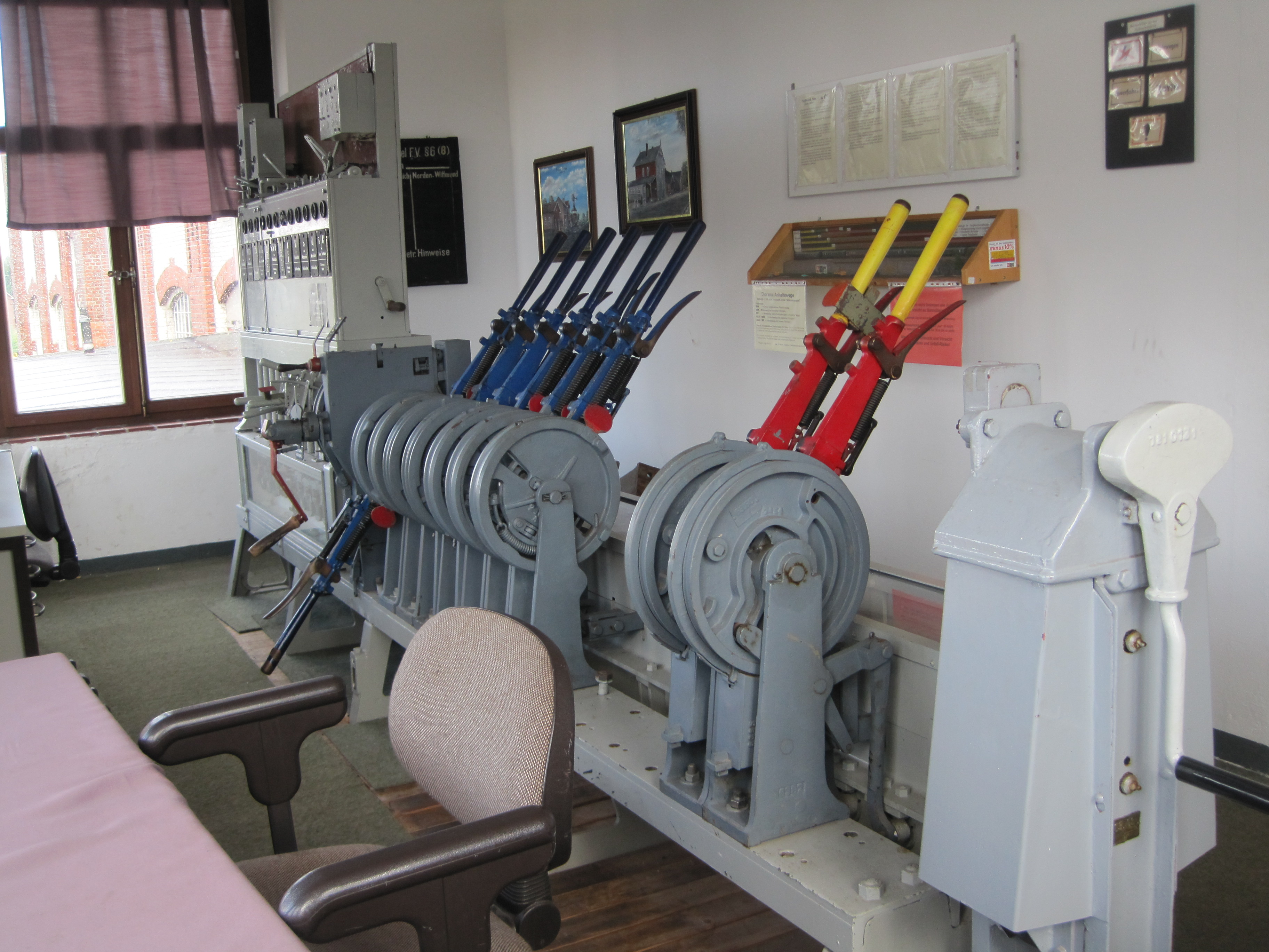 Railway museum, Norden (Ostfriesland), Germany check usage